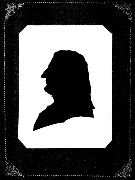 Kapten Lars Gustaf Tersmeden (1755-1833), lord of Göksholm. Contemporary silhouette.